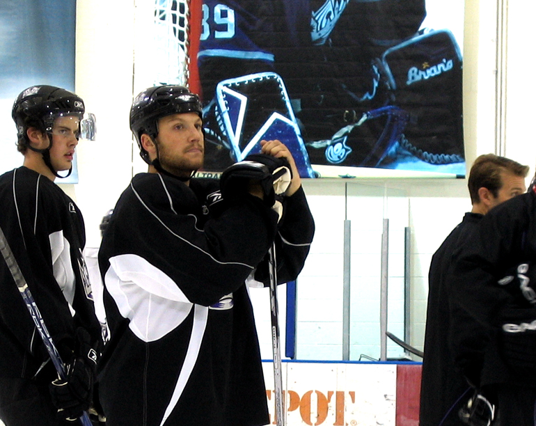 Sean Avery, Picture by MM, Sept 2006, El Segundo, CA.